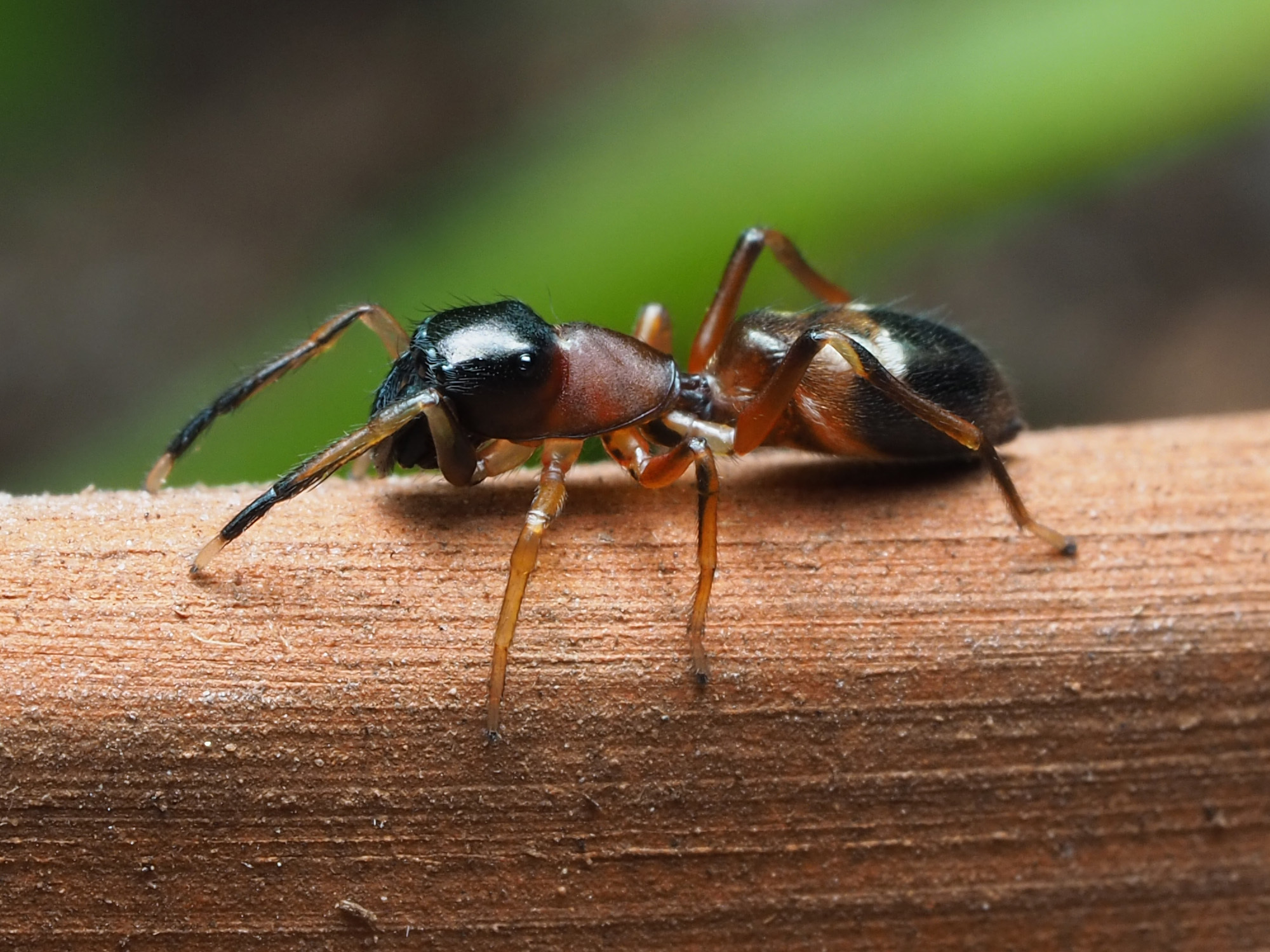 Female Myrmarachne formicaria